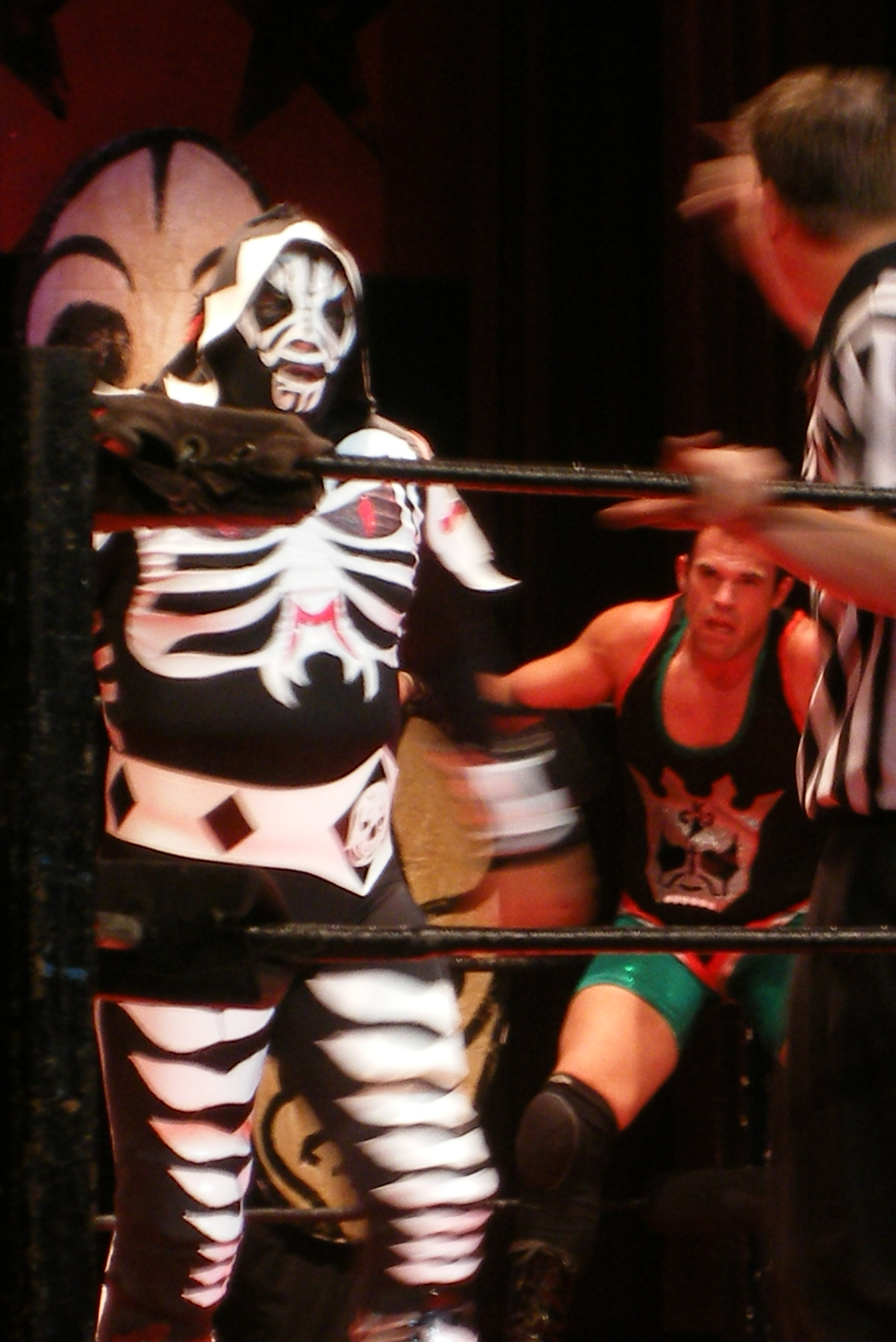 Conrad Kennedy III sneaks up behind La Parka during a match at Revolucha IV on October 24, 2007.